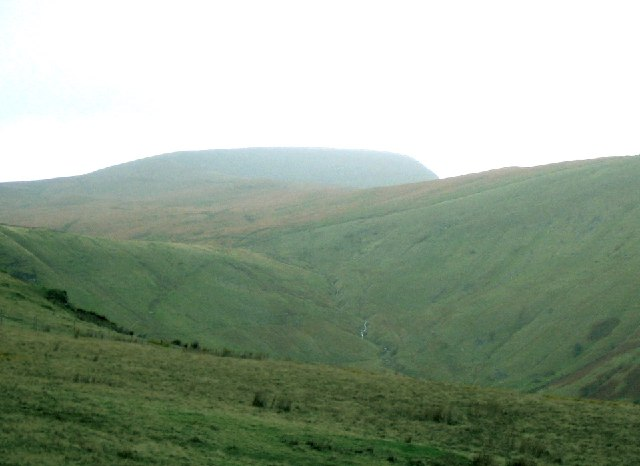 Yr Allt. This is the view looking west, as the road from Ystradfellte to Heol Senni crests over Llethr before descending into the Senni valley. Yr Allt is the ridge on the right and the infant River Senni can be seen descending into the valley. The peak in the background is Fan Gyhirych.